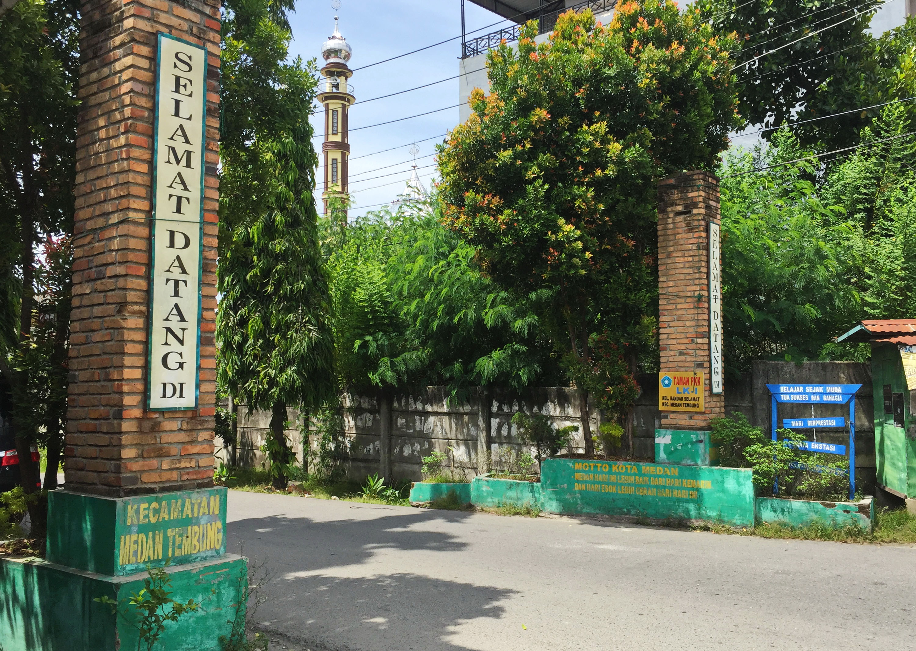 welcome gate to Medan Tembung, Medan